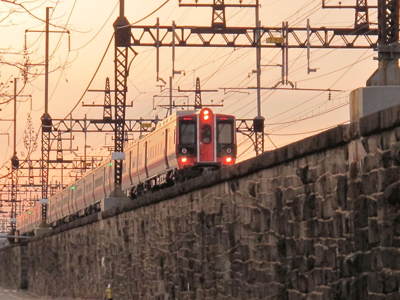 A New Haven Line train passes over Wordin Avenue in Bridgeport, Connecticut as it approaches the downtown station